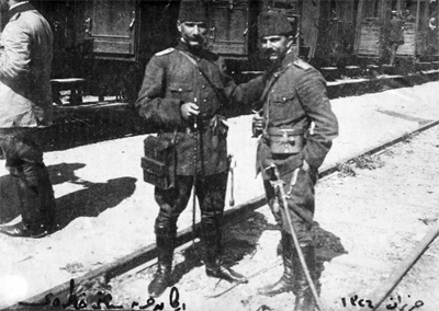 Mustafa Kemal and İzzettin (Çalışlar), in Salonica in June of 1910.